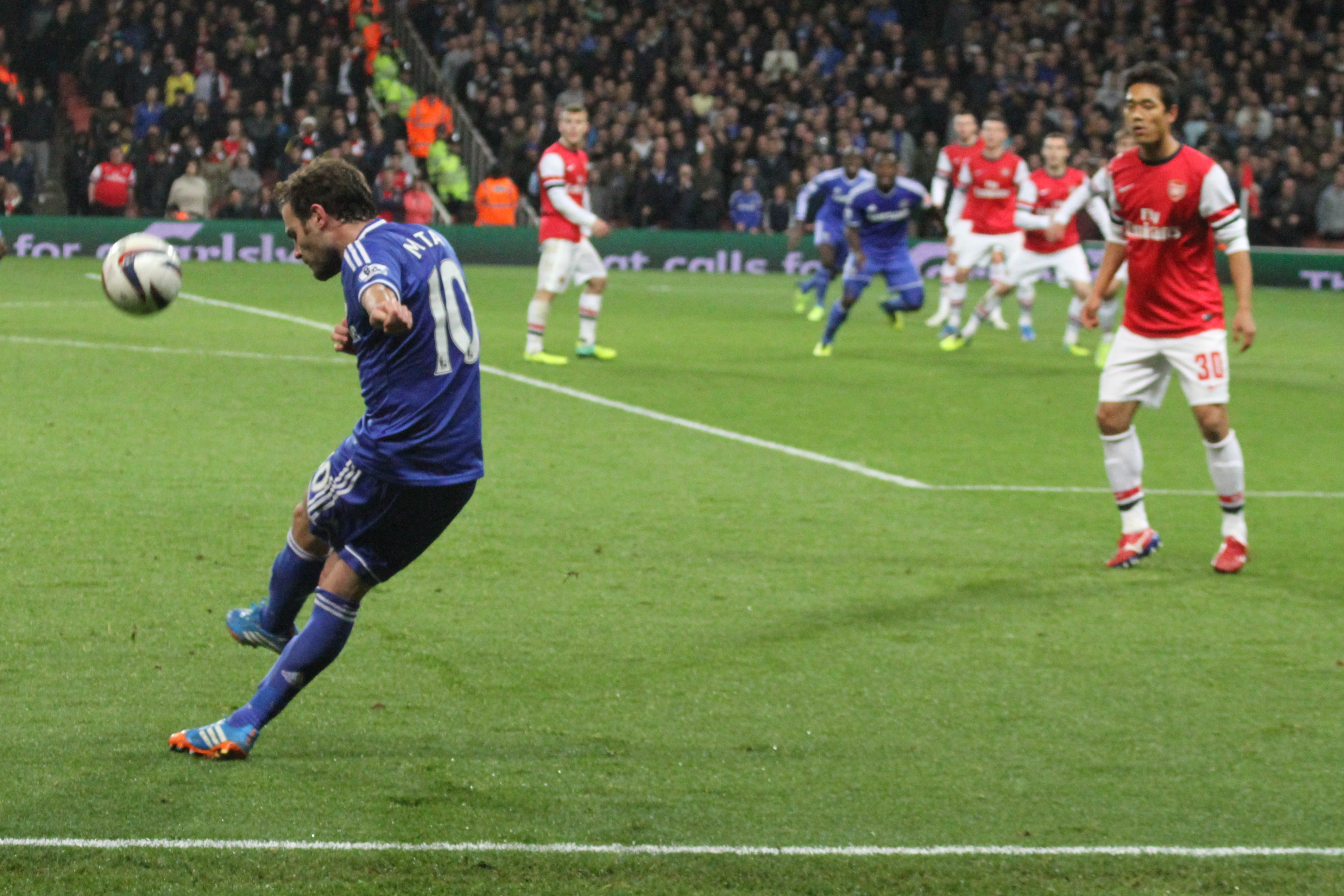 Juan Mata's free kick